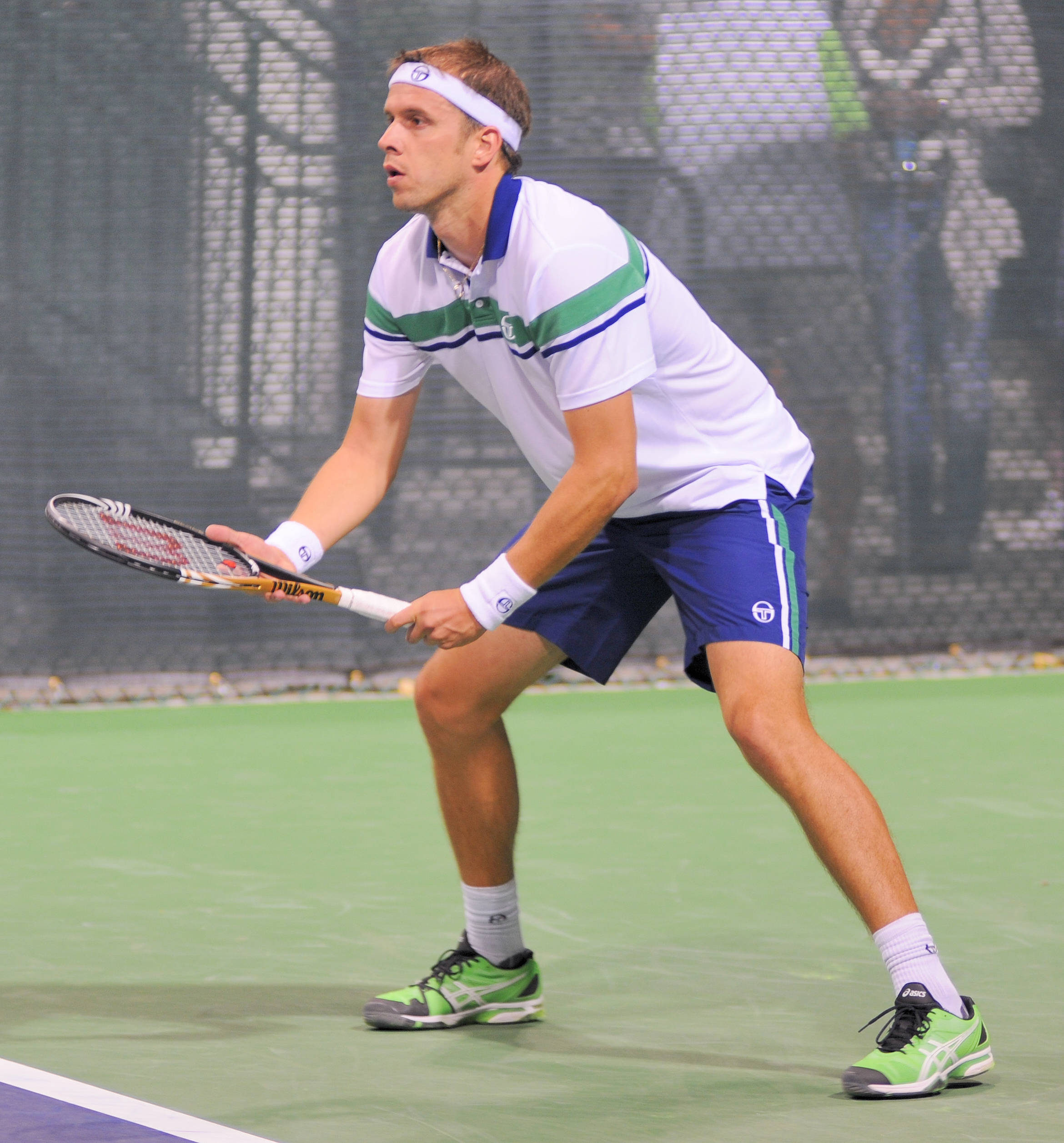 At the BNP Paribas Open 2012